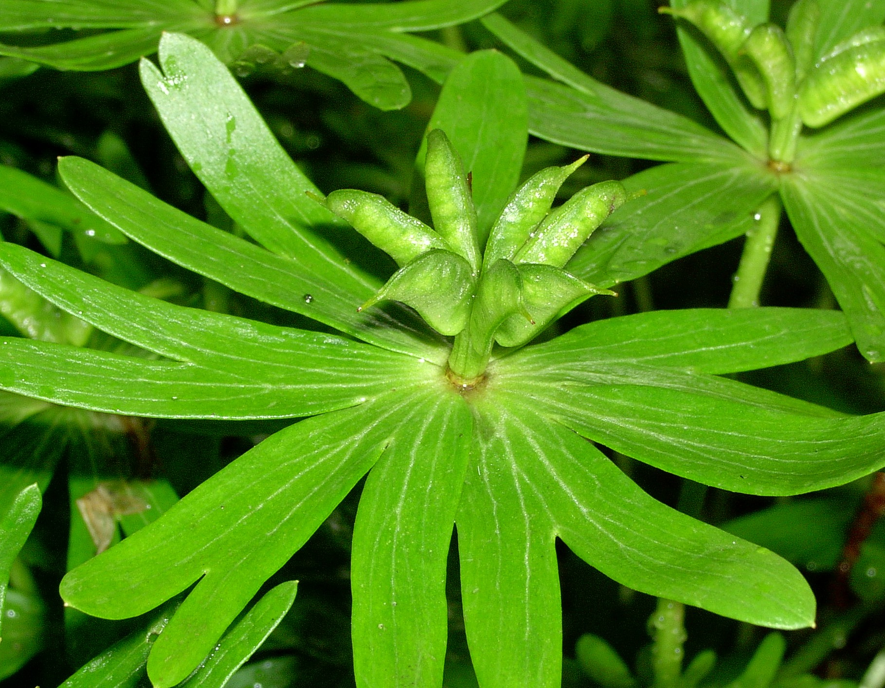 Eranthis hyemalis. Capsules. Chlebowo k. Gryfina NW Poland